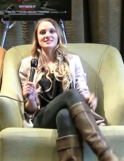 Kirby Bliss Blanton/Alexis Knapp Interview - Project X | The MacGuffin Spencer Fornaciari of The MacGuffin interviews actresses Kirby Bliss Blanton and Alexis Knapp from Project X.